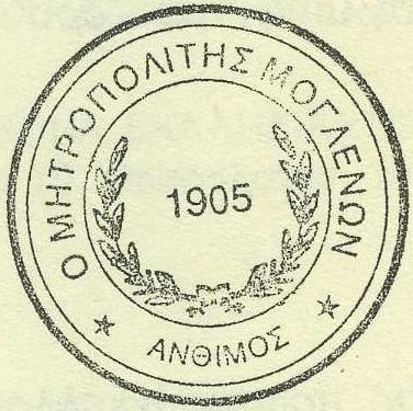 Seal of Anthim of Moglen